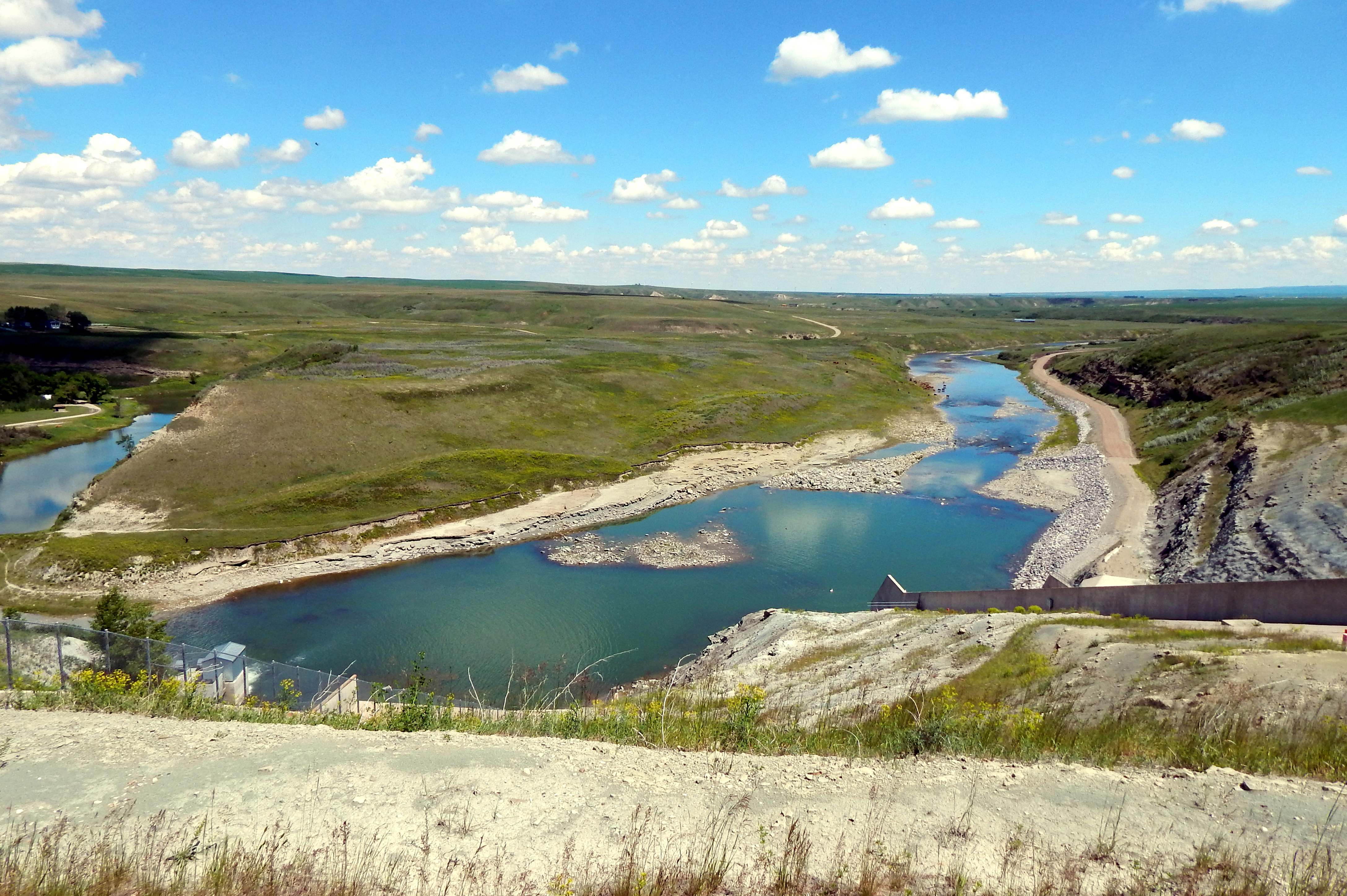 The St. Mary River seen from the spillway at St. Mary Reservoir, Alberta.